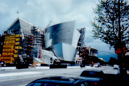 A photo I took of the Walt Disney Concert Hall in Los Angeles while it was under construction. I was standing across the street, in front of the Colburn School.